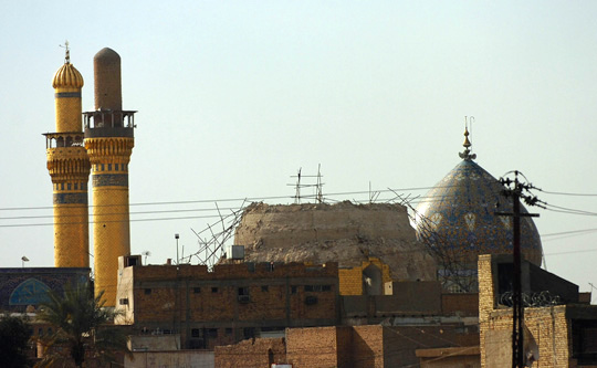 This photo shows the Al-Askari Mosque after the 2006-02-22 bombing, but before the minarets were fully destroyed on 2007-06-13.